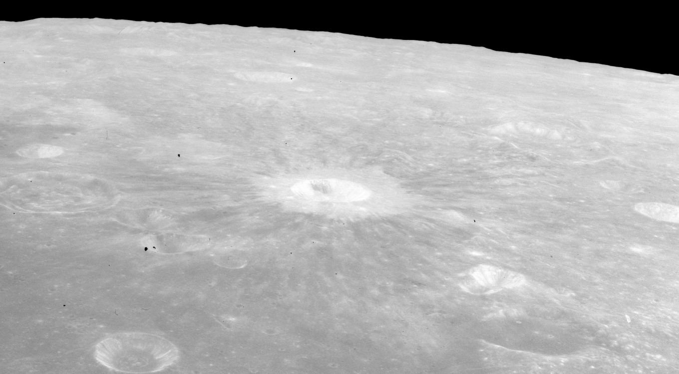 Dionysius crater at center with bright rays. Ritter at left edge, Manners in left foreground, Cayley at right edge, and D'Arrest to right.